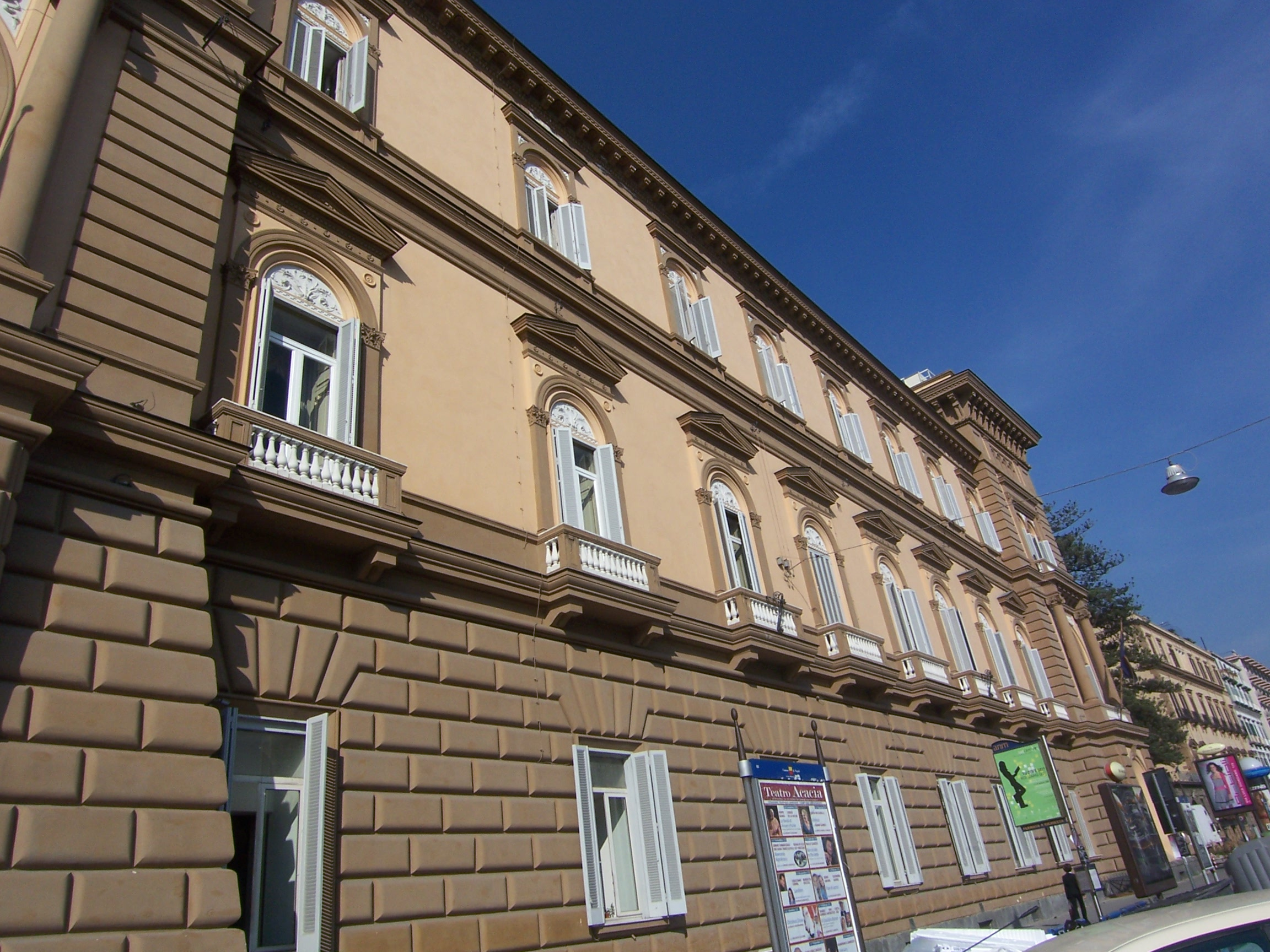 Palazzo Caravita di Sirignano - Chiaia Naples